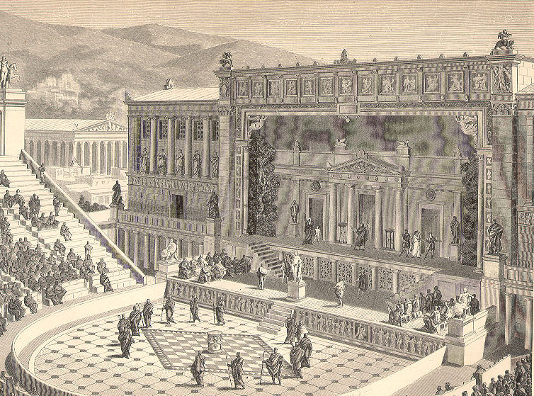 Reconstrucion ot the theatre of Dionysus in Athens, in Roman times. From the German 1891 encyclopedia Joseph Kürschner (editor): “Pierers Konversationslexikon”. Pierers Konversationslexikon. Siebente Auflage. Mit Universal-Sprachen-Lexikon nach Prof. Joseph Kürschners System. Union. (published by) Deutsche Verlagsgesellschaft in Stuttgart, 1891. herausgegeben von (edited by) Joseph Kürschner.